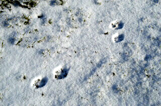 Vulpes vulpes tracks on snow, from Commanster, Belgian High Ardennes (50°15'20``N,5°59'58``E)